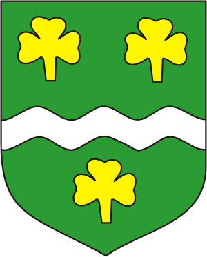 Coat of arms of Jõgeva linn, Estonia